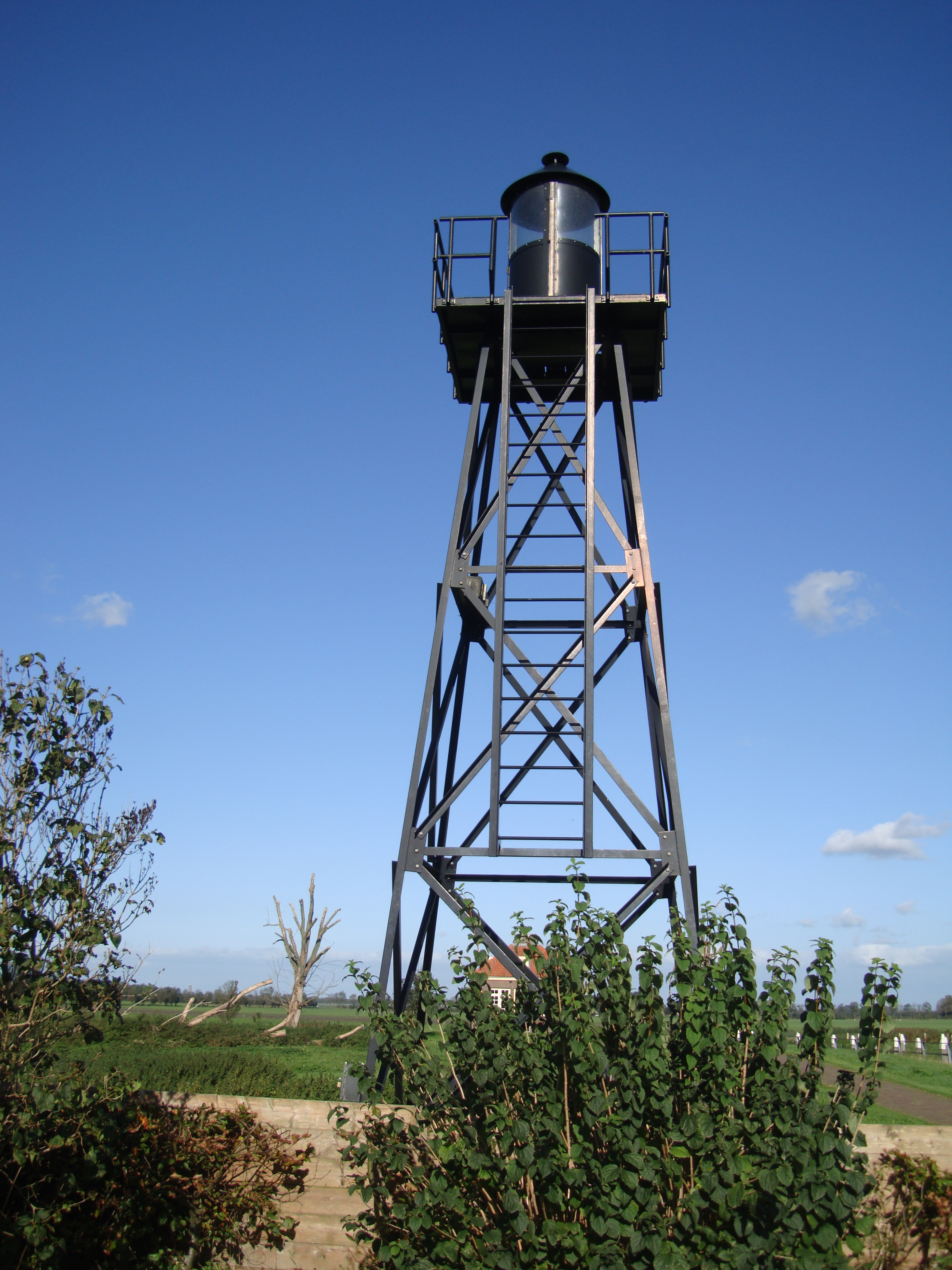 Lighthouse on the former isle Schokland